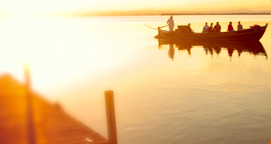 This is a photography of a Special Area of Conservation in Spain with the ID: ES0000023. Natura2000 entry, EEA entry